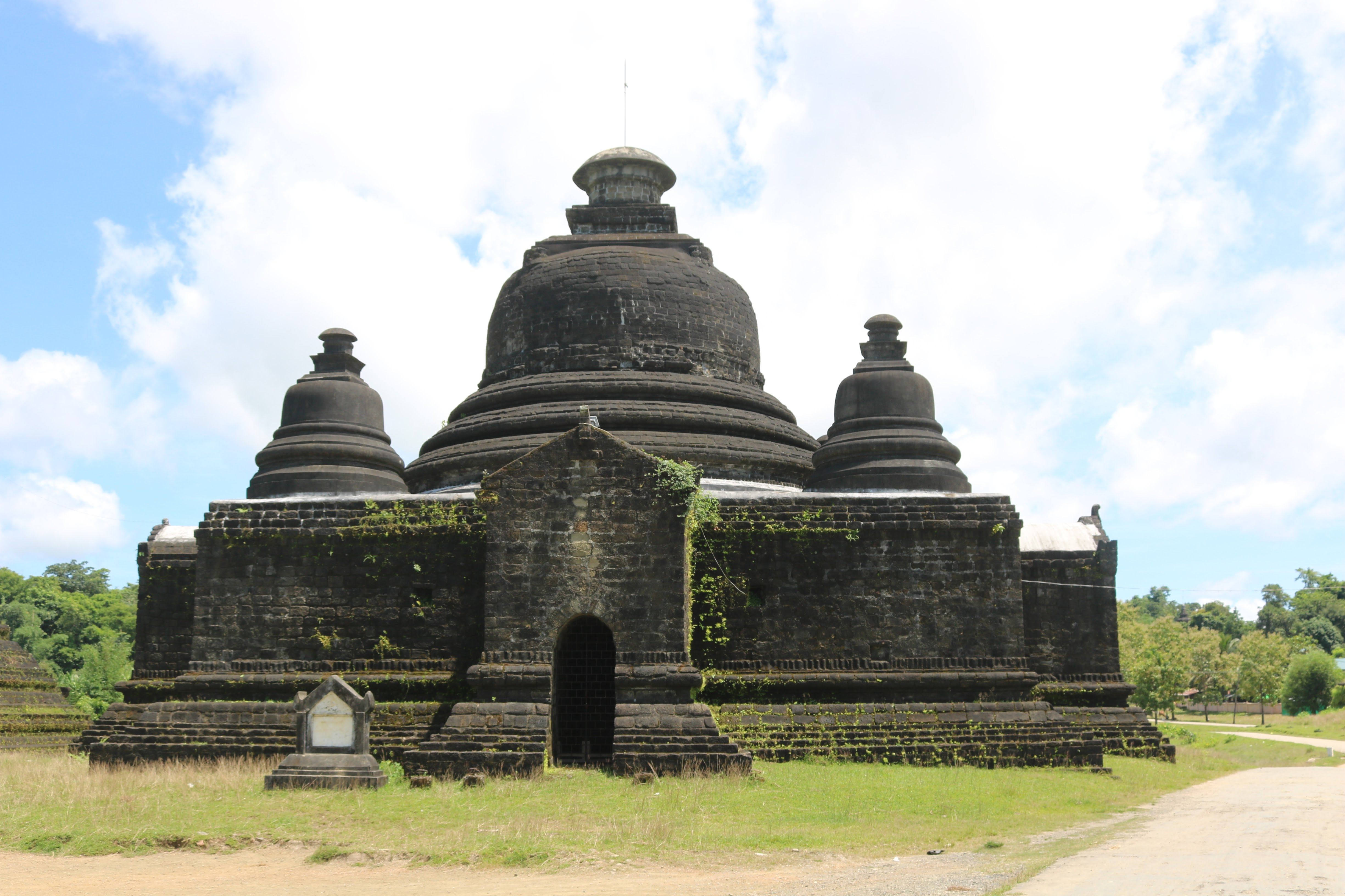 This is West Cardinal Entrance of Le Myet Hna Temple. မြန်မာဘာသာ: လေးမျက်နှာပုထိုးတော် အနောက်ဘက်မုဒ်